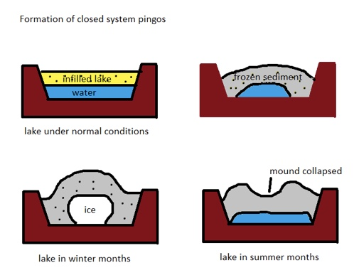 Figure Is adapted from E. Farrell.